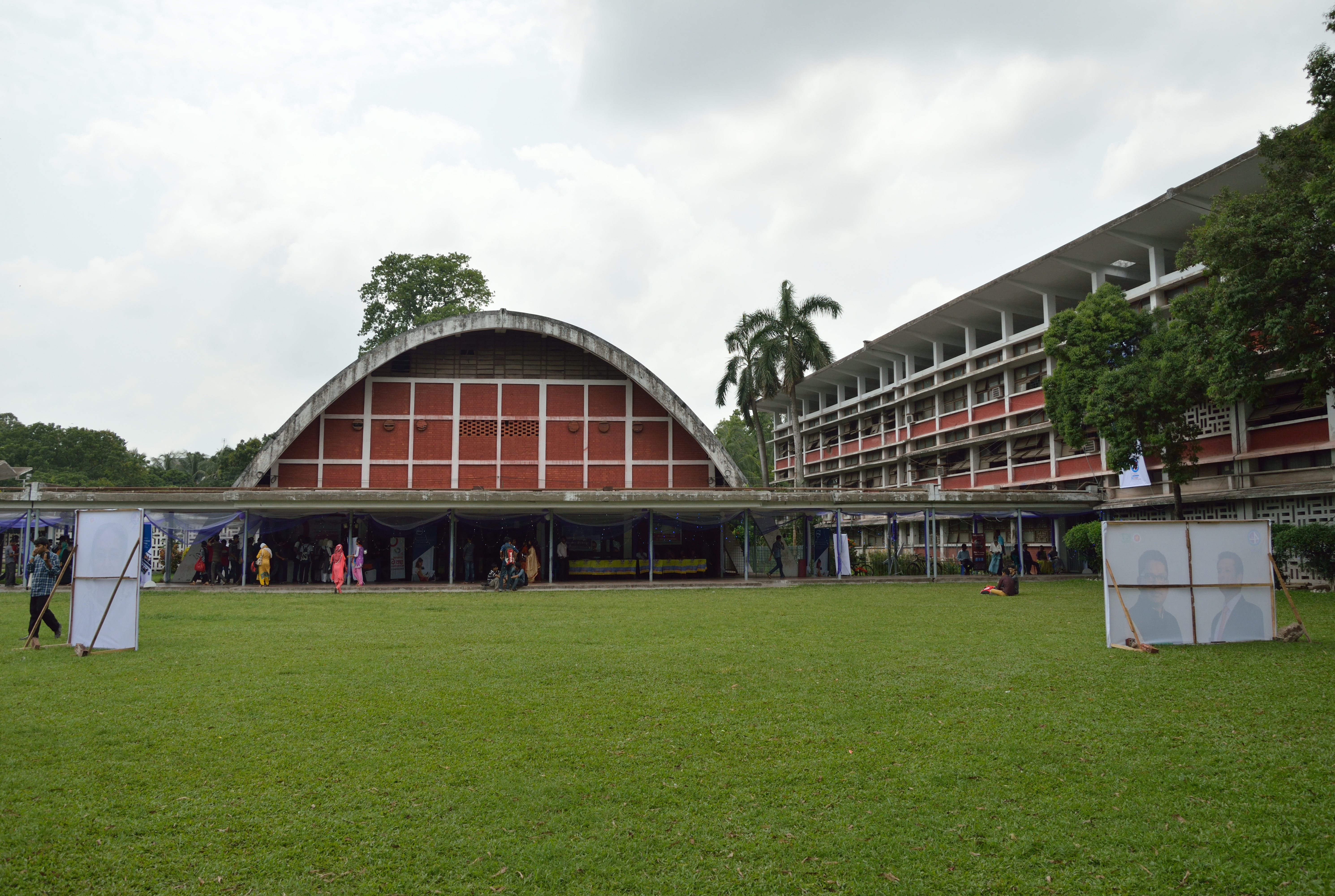 Teacher-Student Centre, University of Dhaka, Bangladesh.